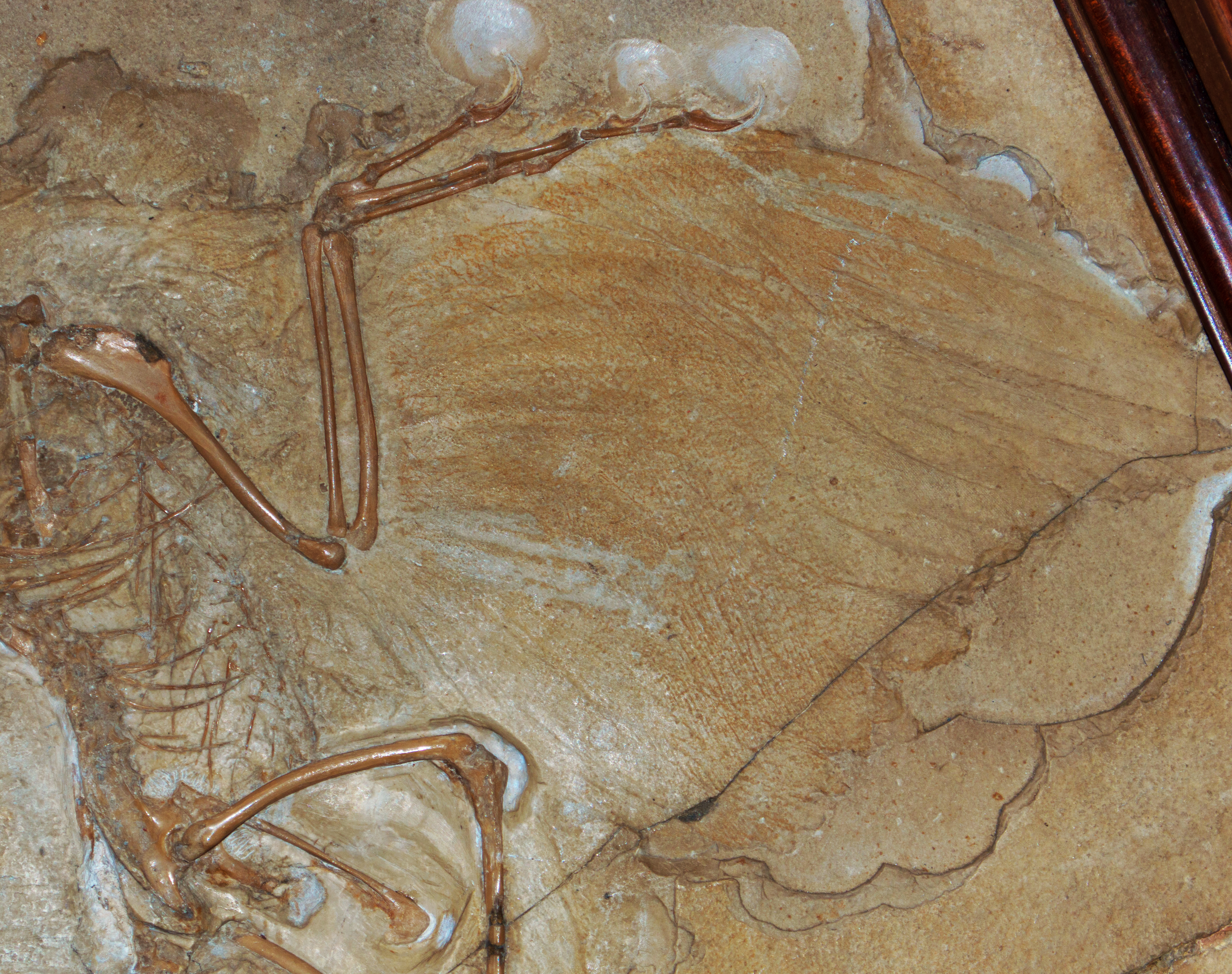 Detail of arm & plumage of Archaeopteryx lithographica fossil displayed at the Museum für Naturkunde in Berlin. (Original specimen; not a cast)